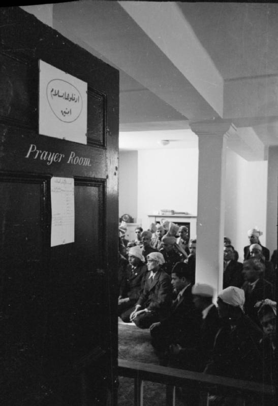 Muslims in Britain- Eid Ul Fitr Celebrations, 1941 A view of the prayer room at the East London Mosque during the Eid ul Fitr celebrations.